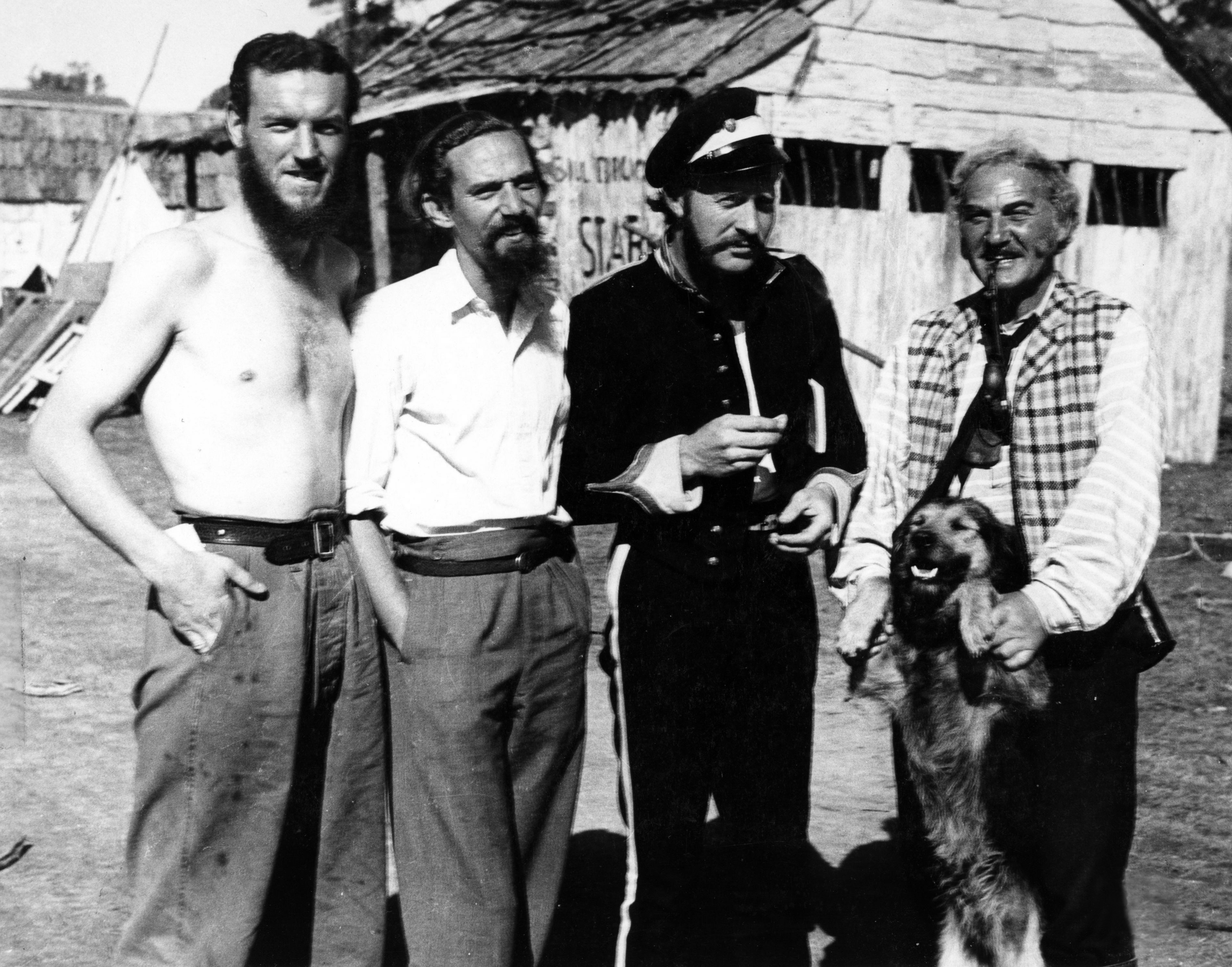 1948 B&W photograph of Donn Reynolds on the Australian film set of Eureka Stockade standing with Peter Finch, Grant Taylor, and Sydney Loder.